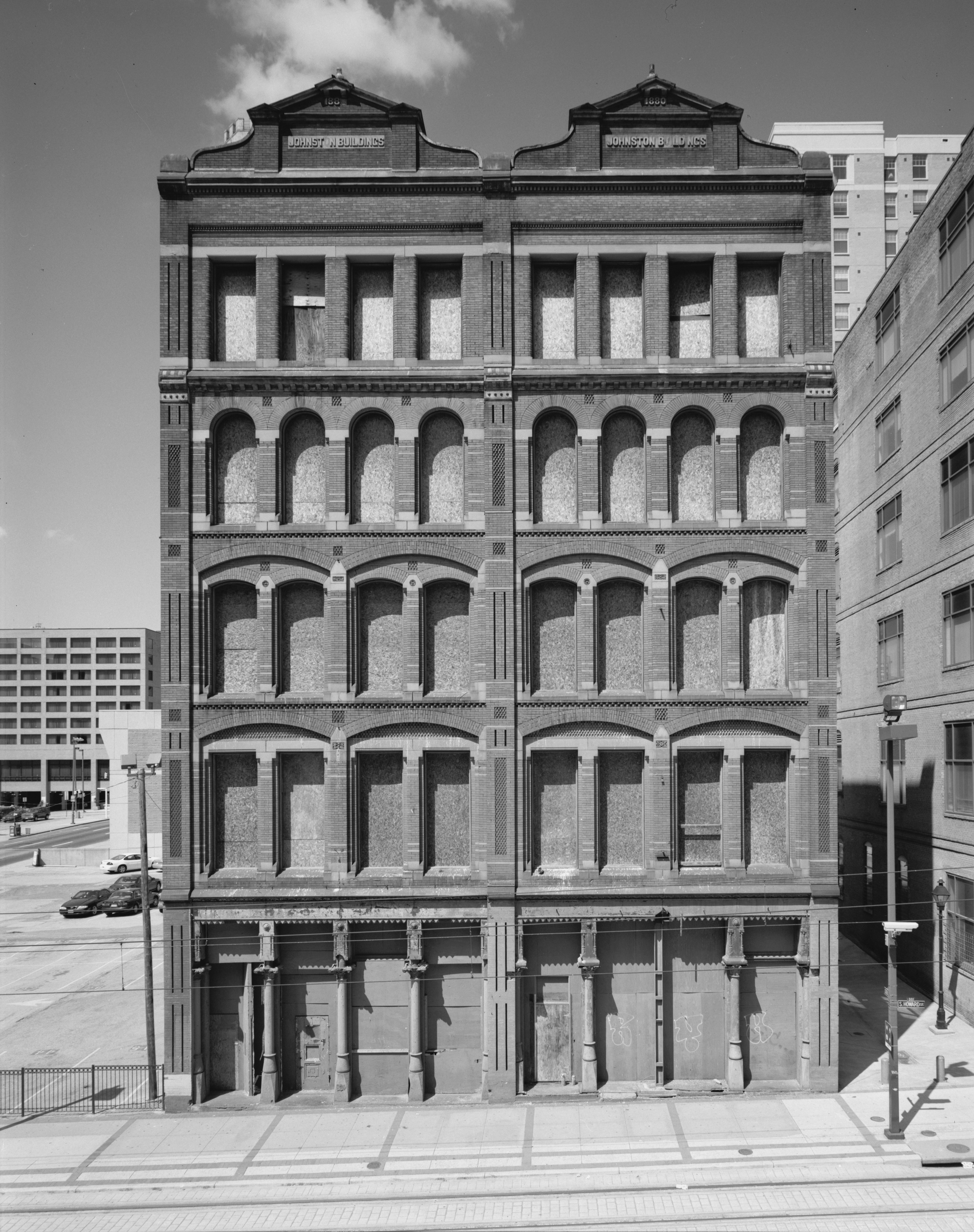 Johnston Building — historic brick building at 26-30 S. Howard St. in central Baltimore, Maryland. On the National Register of Historic Places since September 26, 1994. Image courtesy of the federal HABS—Historic American Buildings Survey of Maryland. HABS photo, their metadata include: Call Number: HABS MD-1118 Repository: Library of Congress Prints and Photographs Division Washington, D.C. 20540 USA Notes Survey number: HABS MD-1118 Building/structure dates: 1880 Initial Construction Subjects: loft buildings brick buildings building deterioration Place: Maryland -- Independent City -- Baltimore Latitude/Longitude: 39.29028, -76.6125 Collections: Historic American Buildings Survey/Historic American Engineering Record/Historic American Landscapes Survey